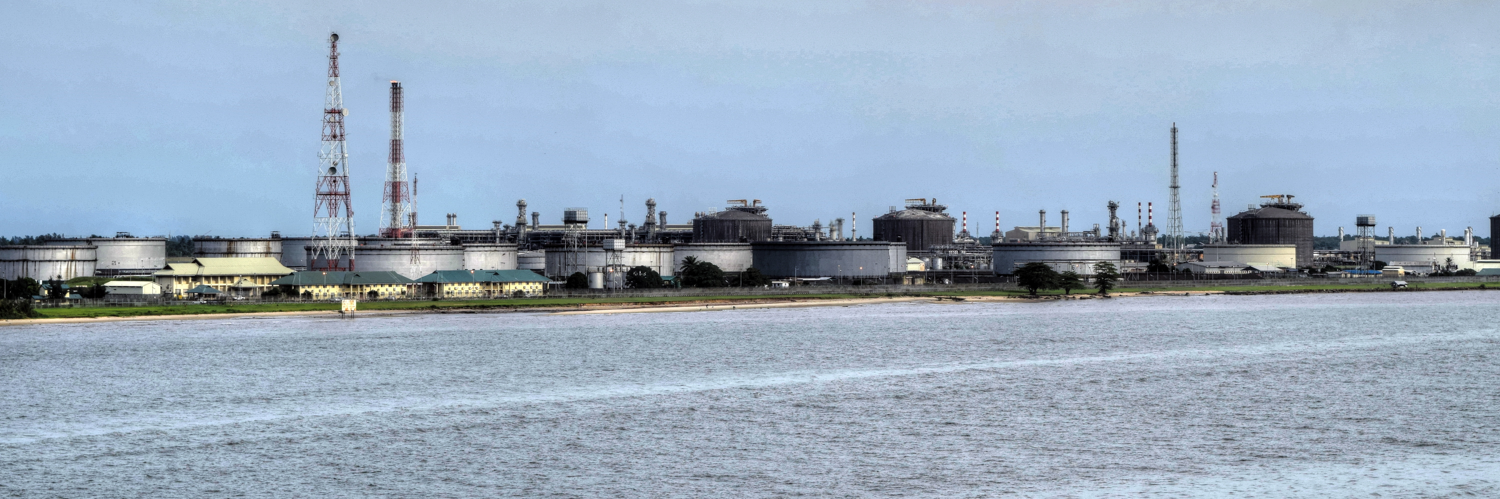 Oil Factory